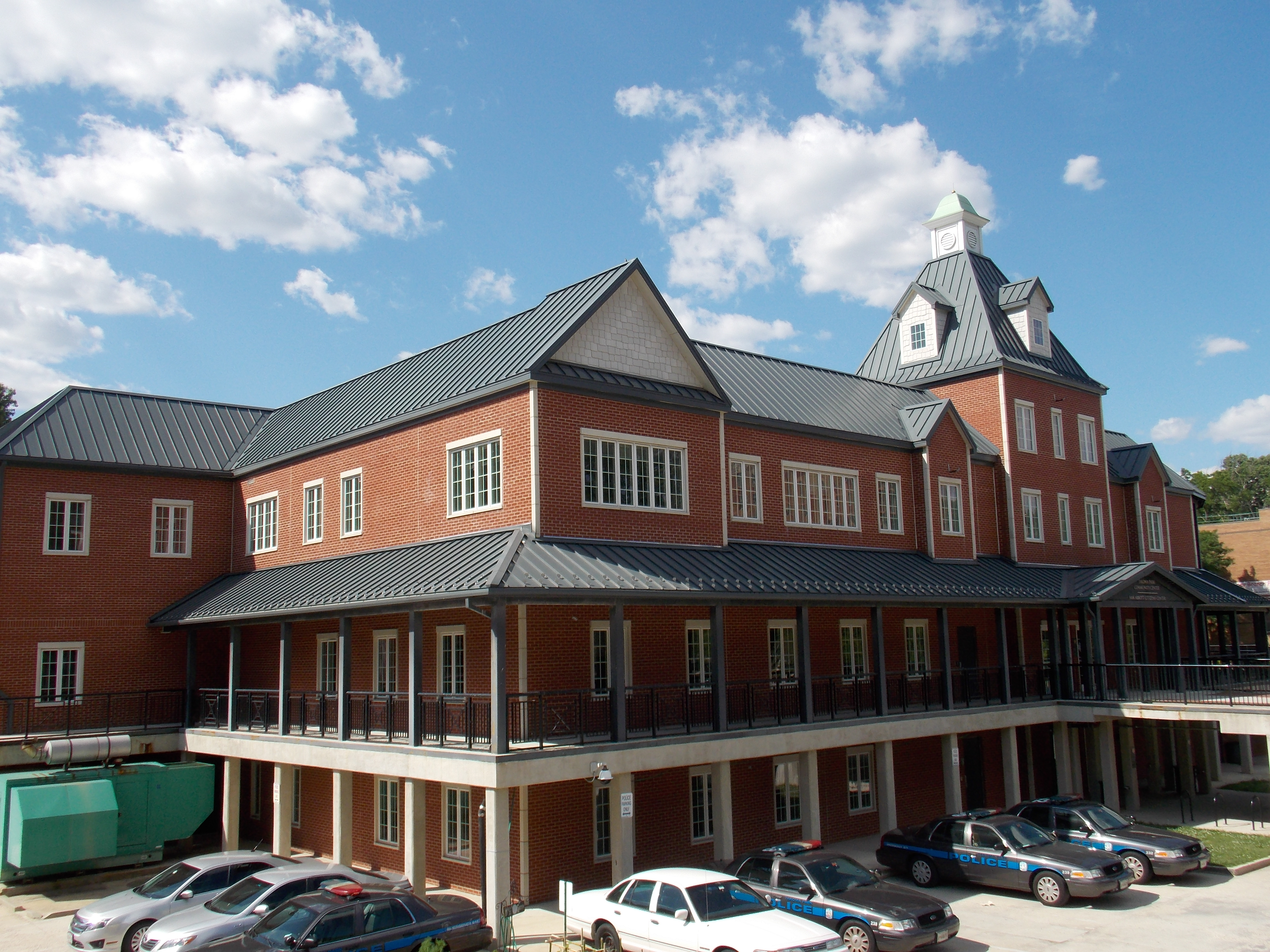 Takoma Park Community Center in Takoma Park, Maryland.